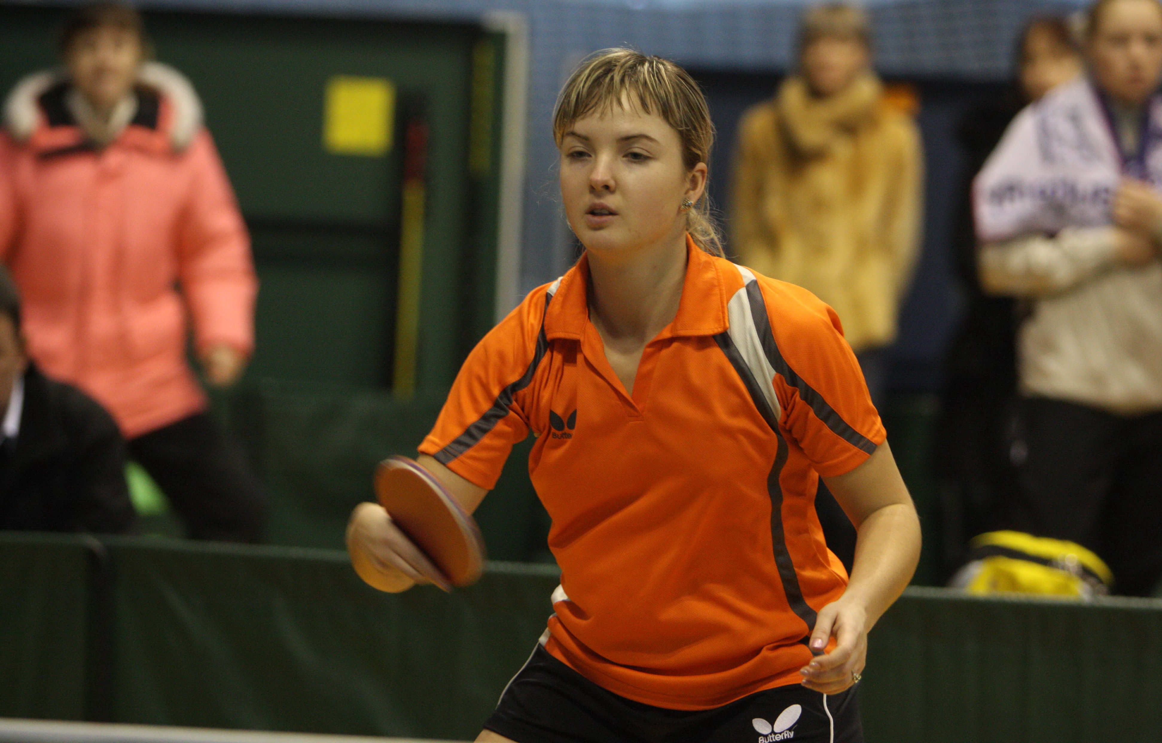 Anna Tikhomirova in 2009